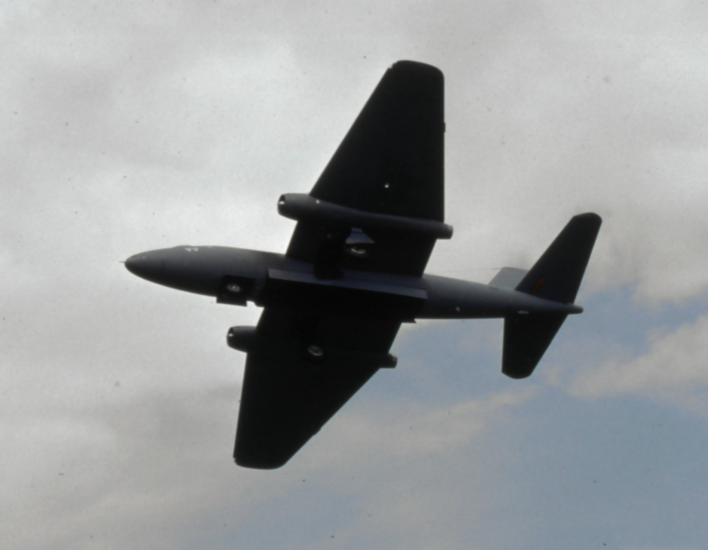 Canberra T.4 at AFB Waterkloof during SAAF 60